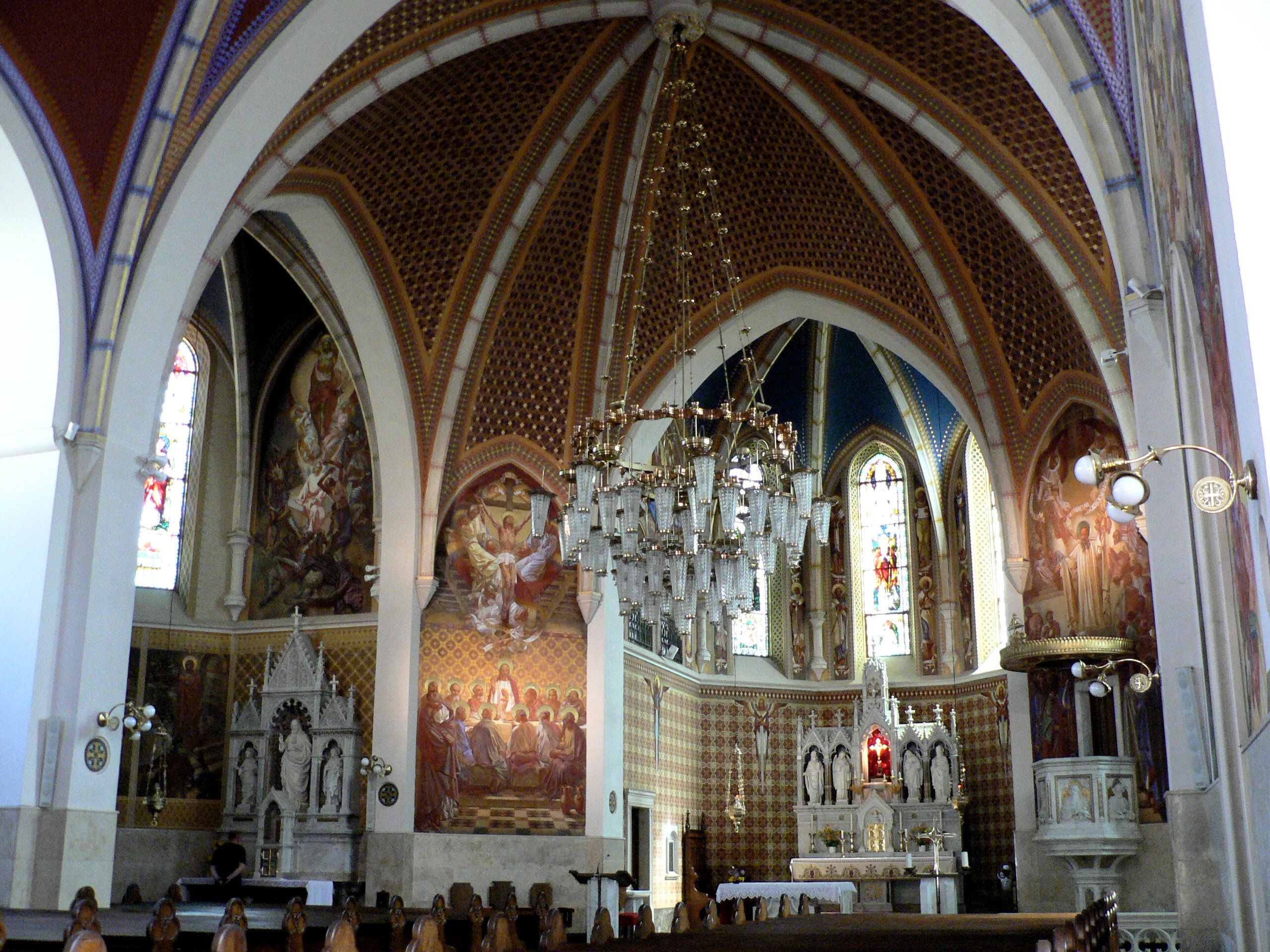 St Martin's Church at Bled (Slovenia). Inside: paintings of Slavko Pengov